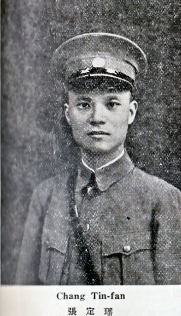 Zhang Dingfan (Chang Ting-fan) (1891 - 1944)